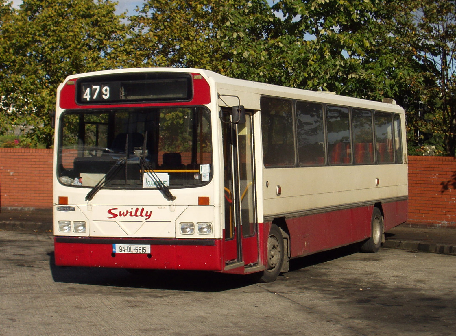 A Wright Handybus body on Dennis Dart chassis, operated by Swilly Bus Company, in Derry bus station.